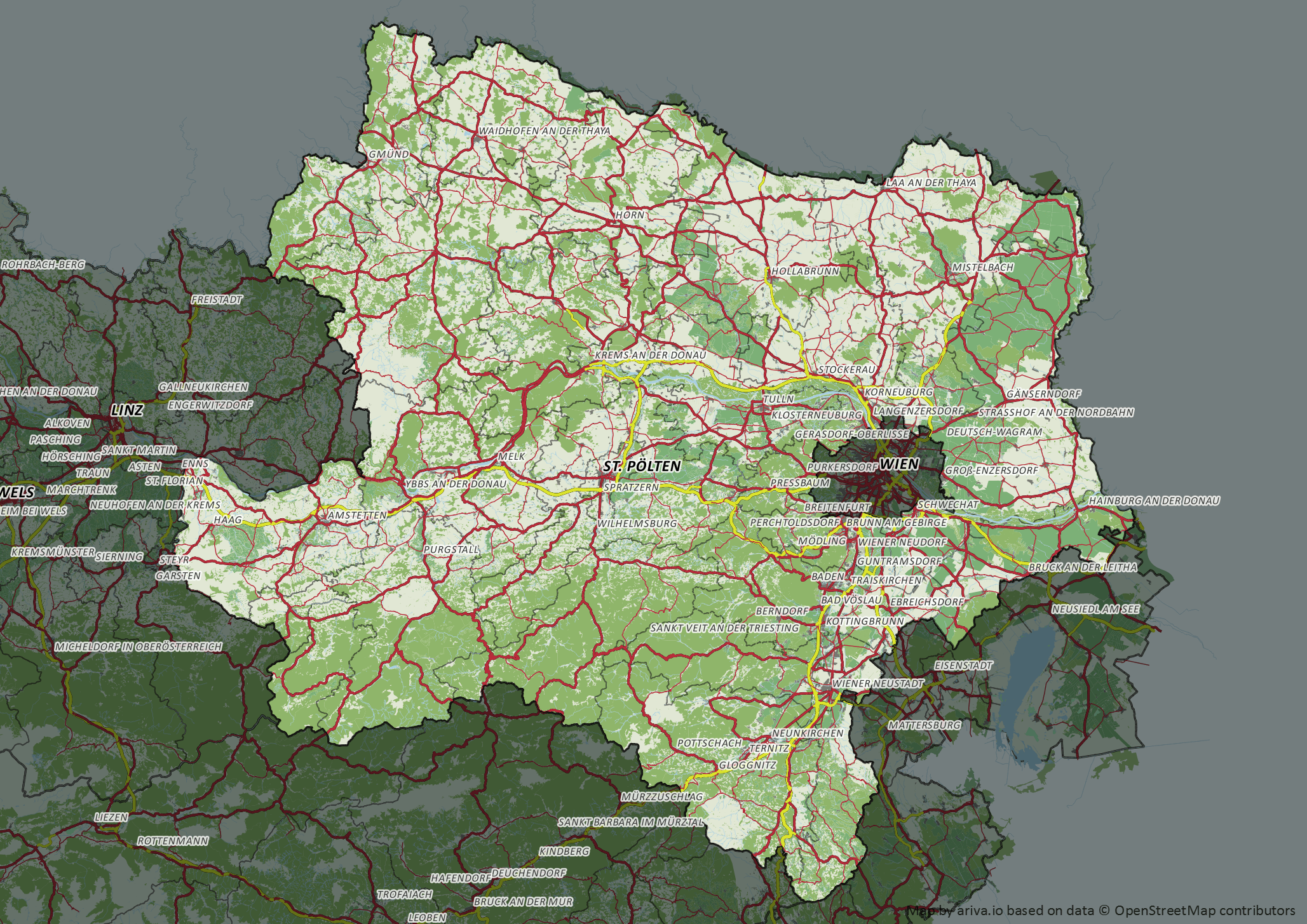 Map of Lower Austria